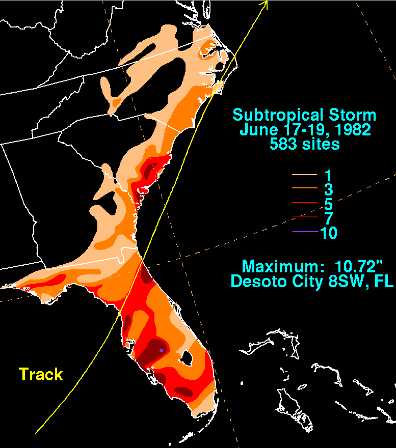 Storm total rainfall map of Subtropical Storm One during June 1982.